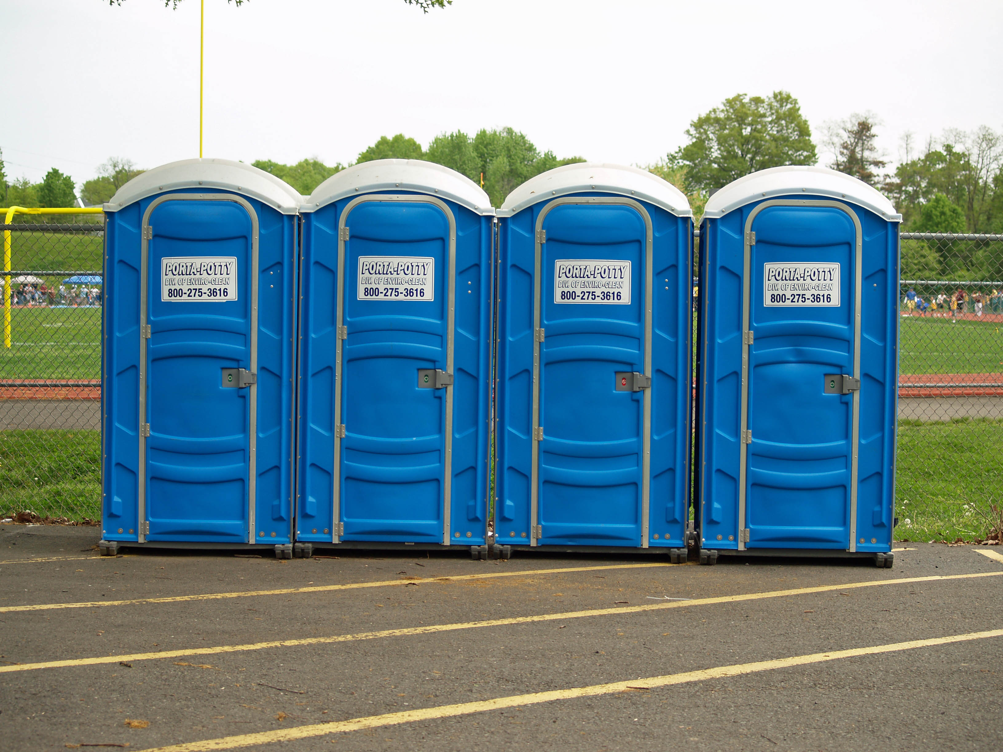 Porta Potty by David Shankbone